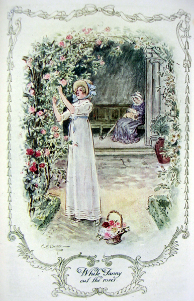 Illustration for ch.7 of Mansfield Park, in the Series of English Idylls, published by J.M Dent & Co. (London) and E.P. Dutton & Co. (New York). " While Fanny cut the roses ".